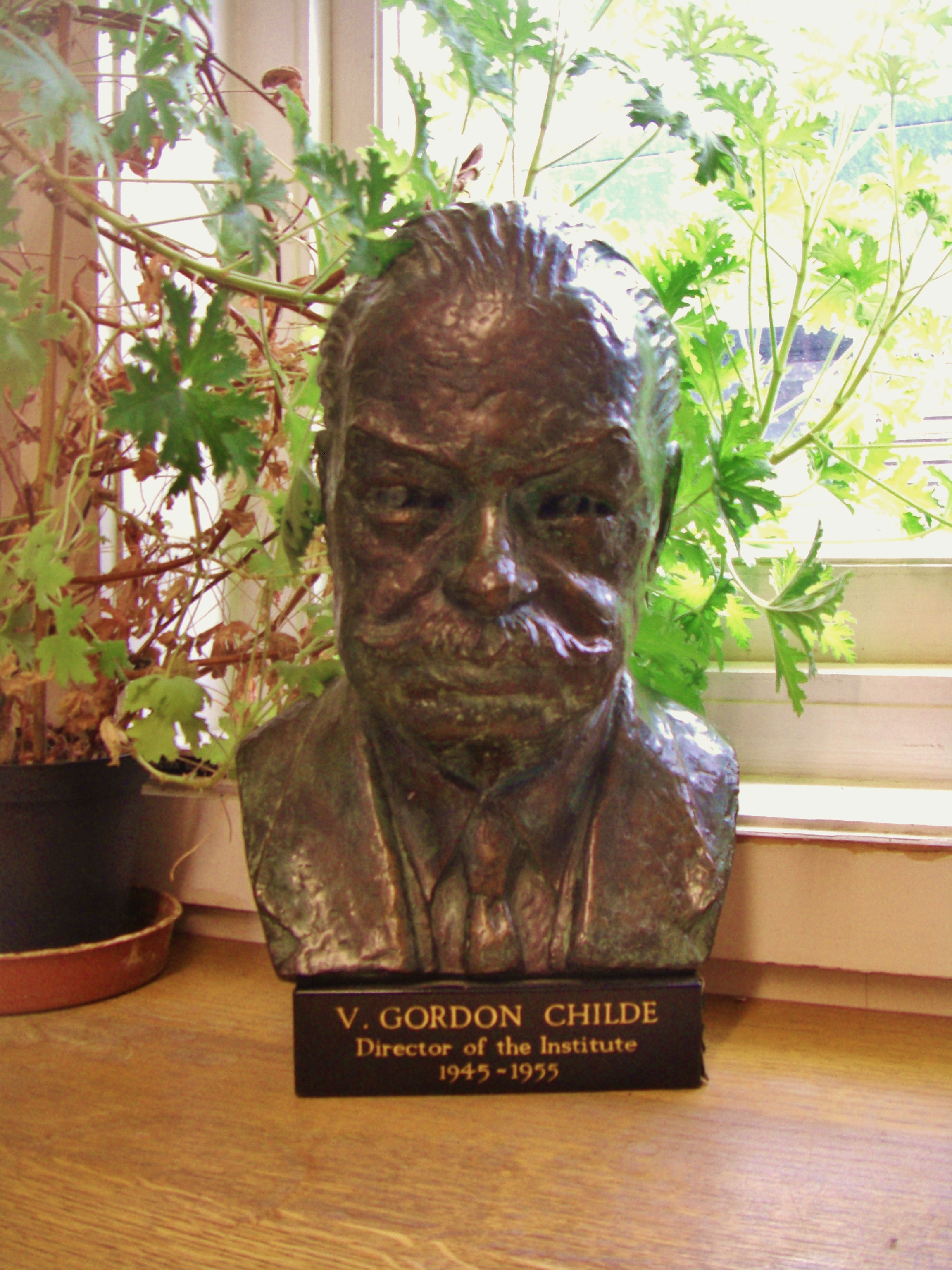 A bust of V. Gordon Childe, influential archaeologist and prehistorian, in the library of the Institute of Archaeology, London, where Childe was once director. The bronze bust was produced by the sculptor Marjorie Maitland Howard and has been on display in the IOA library since 1958.